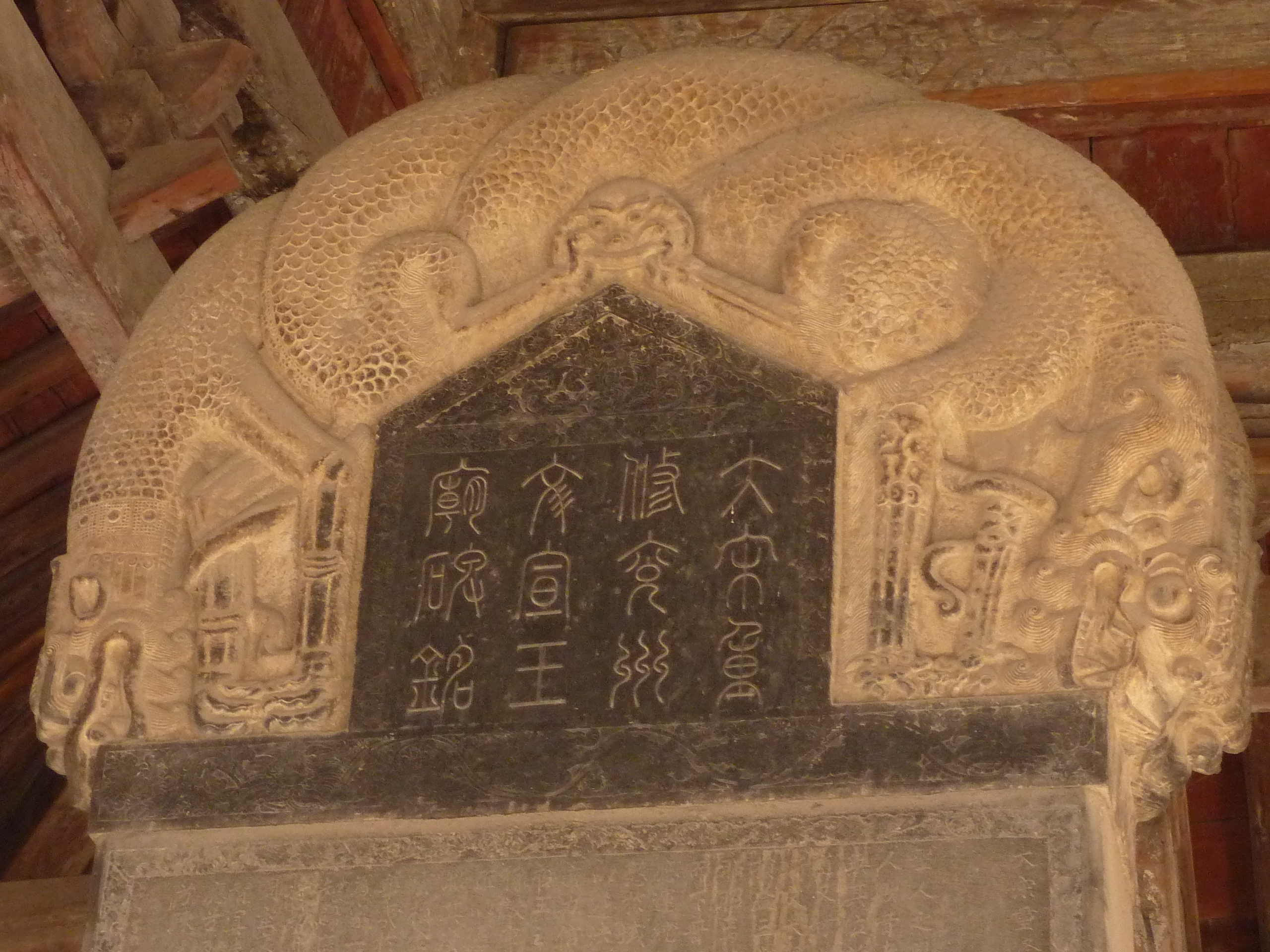 The 3rd pavilion, counting from the west, in the southern row of the Thirteen Stele Pavilions of the Temple of Confucius, Qufu. This pavilion houses 2 Song and Jin (Jurchen) Dynasty tortoise-borne steles, both facing south. This photo shows the top of the western (Song) stele.